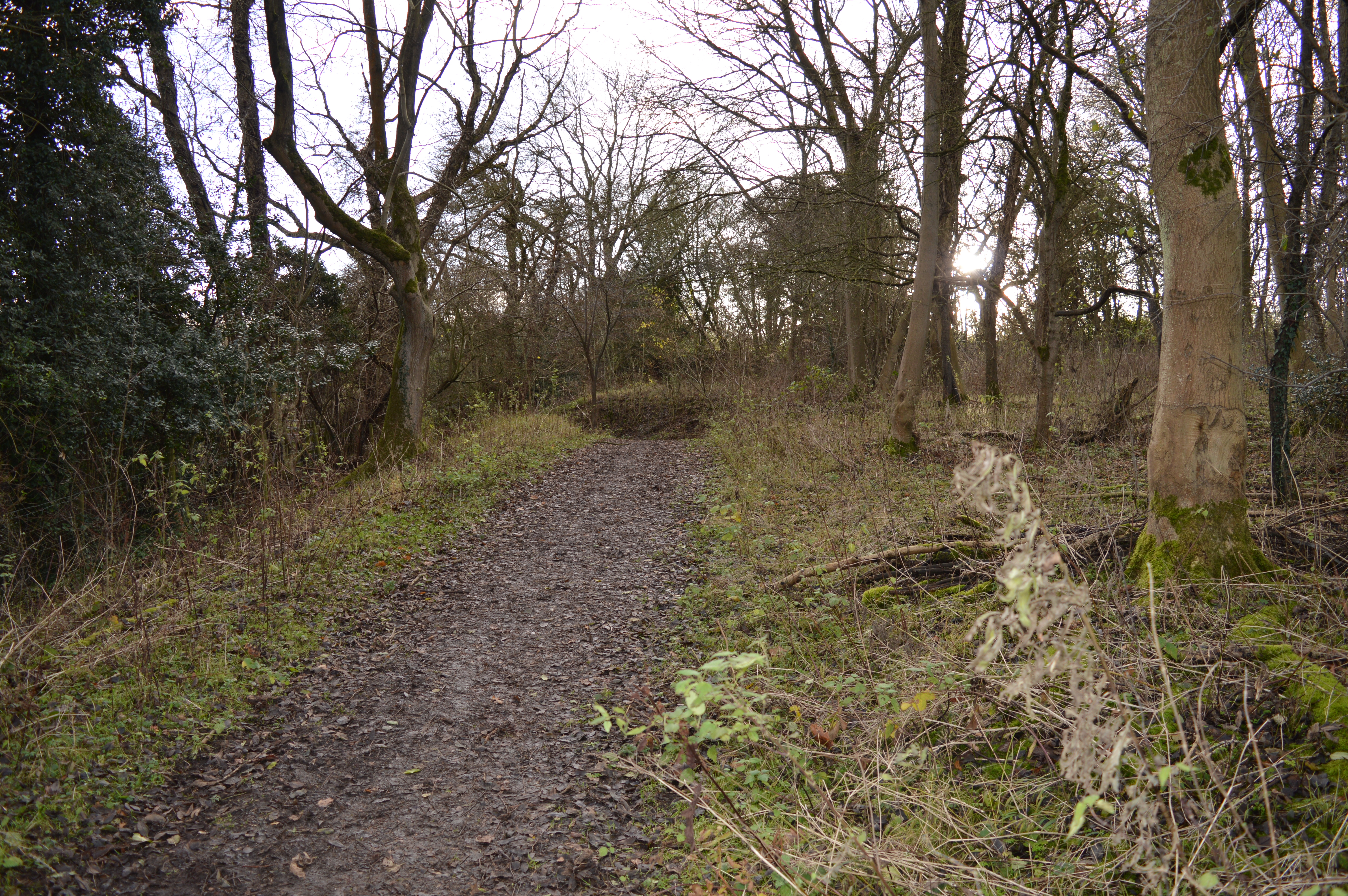 Roughdown Common, Site of Special Scientific Interest in Hemel Hempstead, Hertfordshire